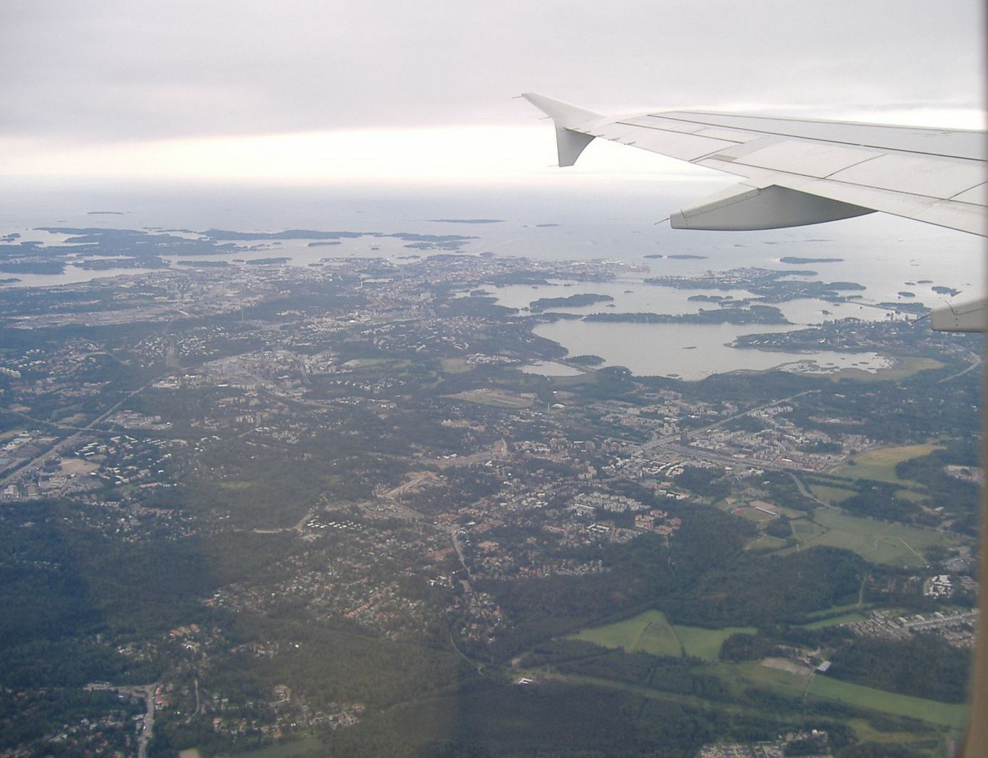 Leppävaara and Lintuvaarain Espoo, Finland from air